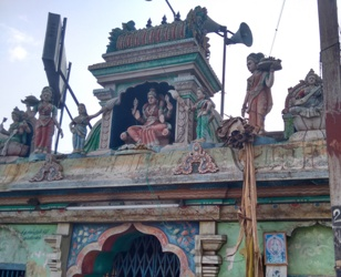 கும்பகோணம் மூகாம்பிகை கோயில் Kumbakonam Mookambikai Temple